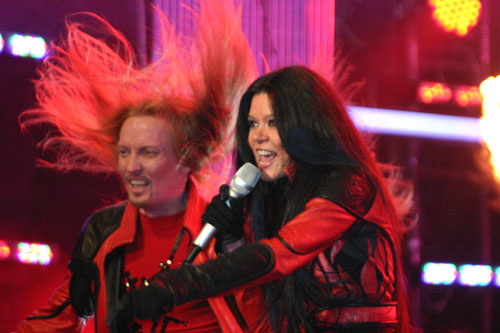 Ruslana at German Eurovision national selection in Hamburg, Germany